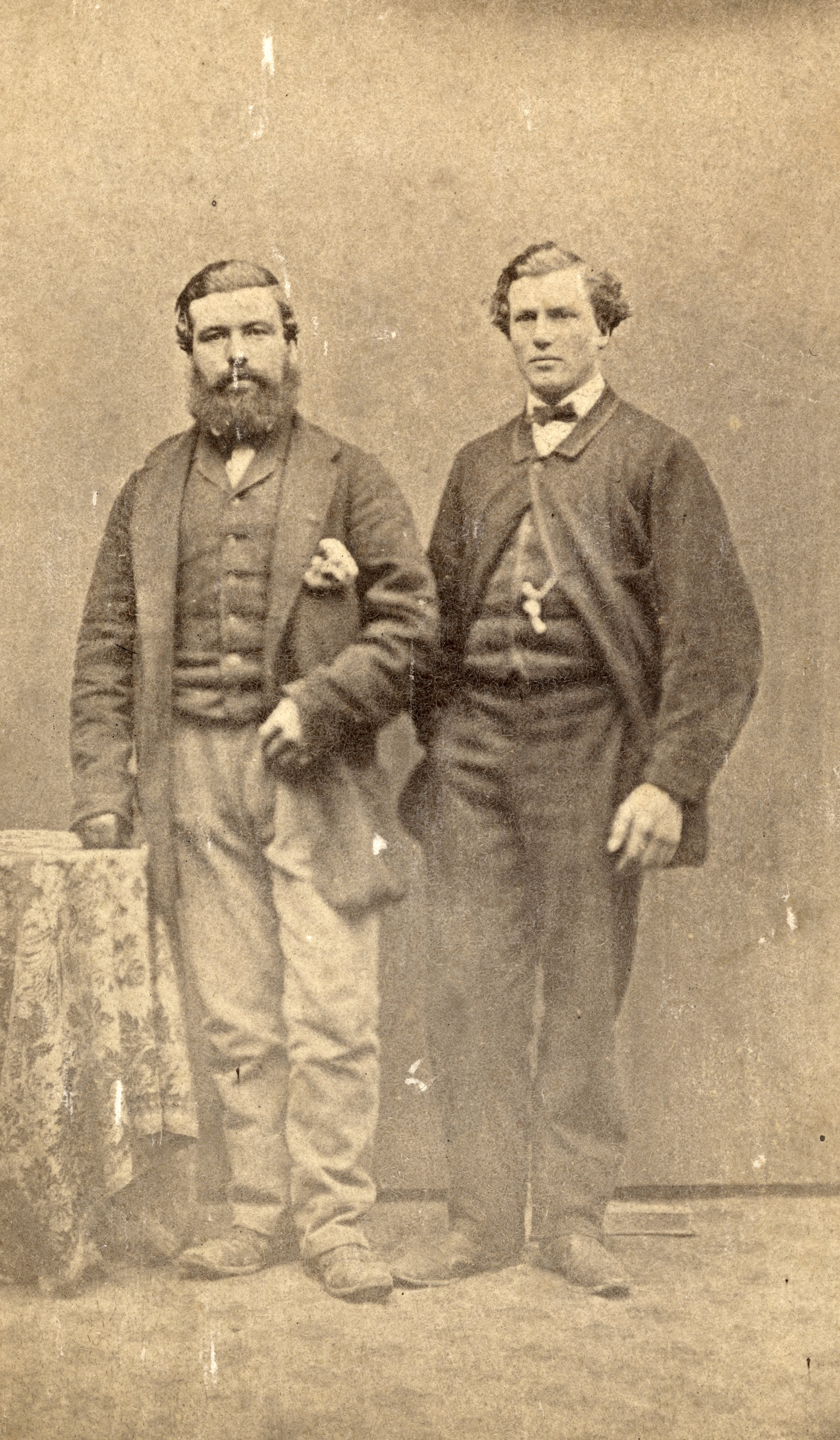 Portrait of George Dobson and Herbert Howitt taken before 28 May 1863. George Dobson is the son of Edward Dobson, and the brother of Arthur Dudley Dobson.